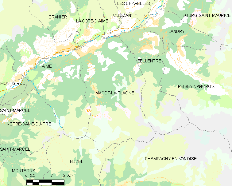 Map of French municipality